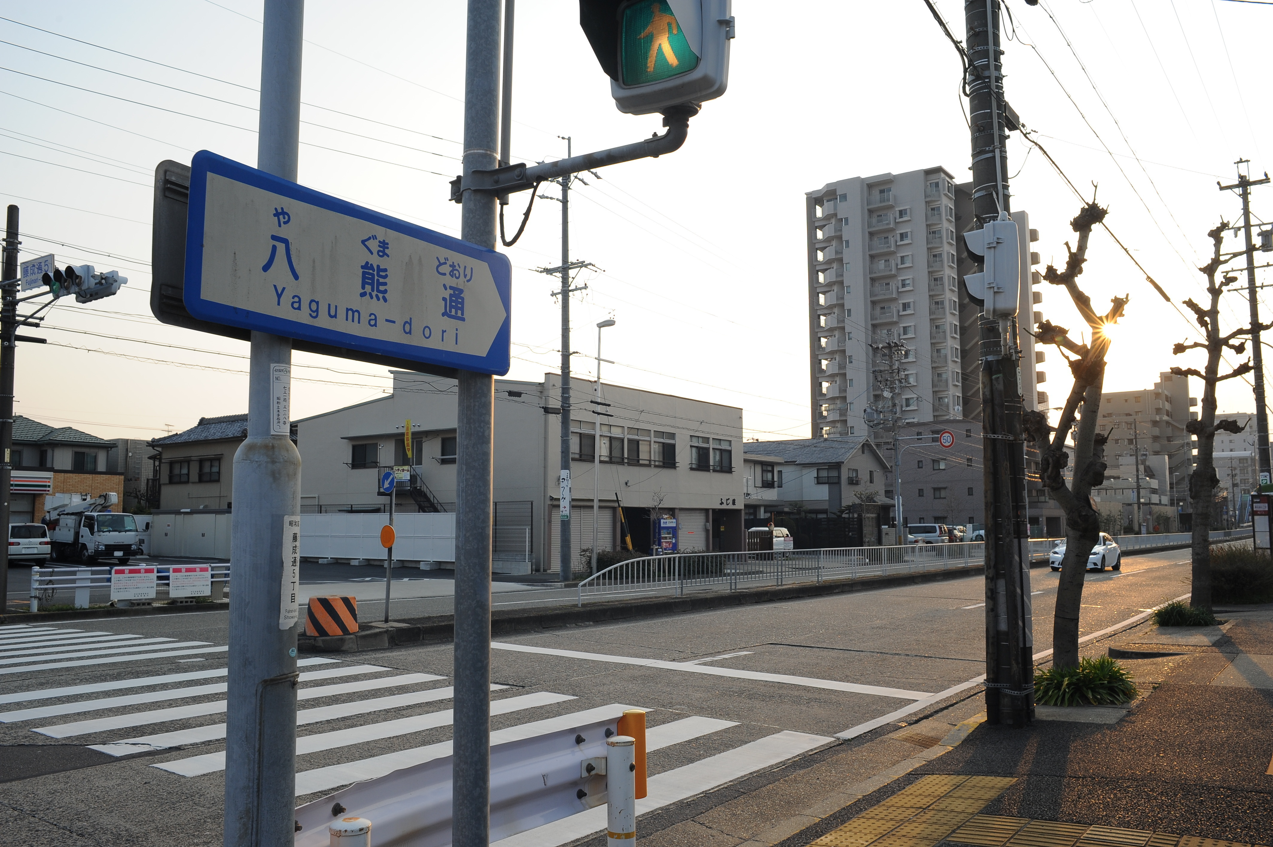 Aichi Prefectural Route 29 (Yaguma St.), Nagoya, Aichi